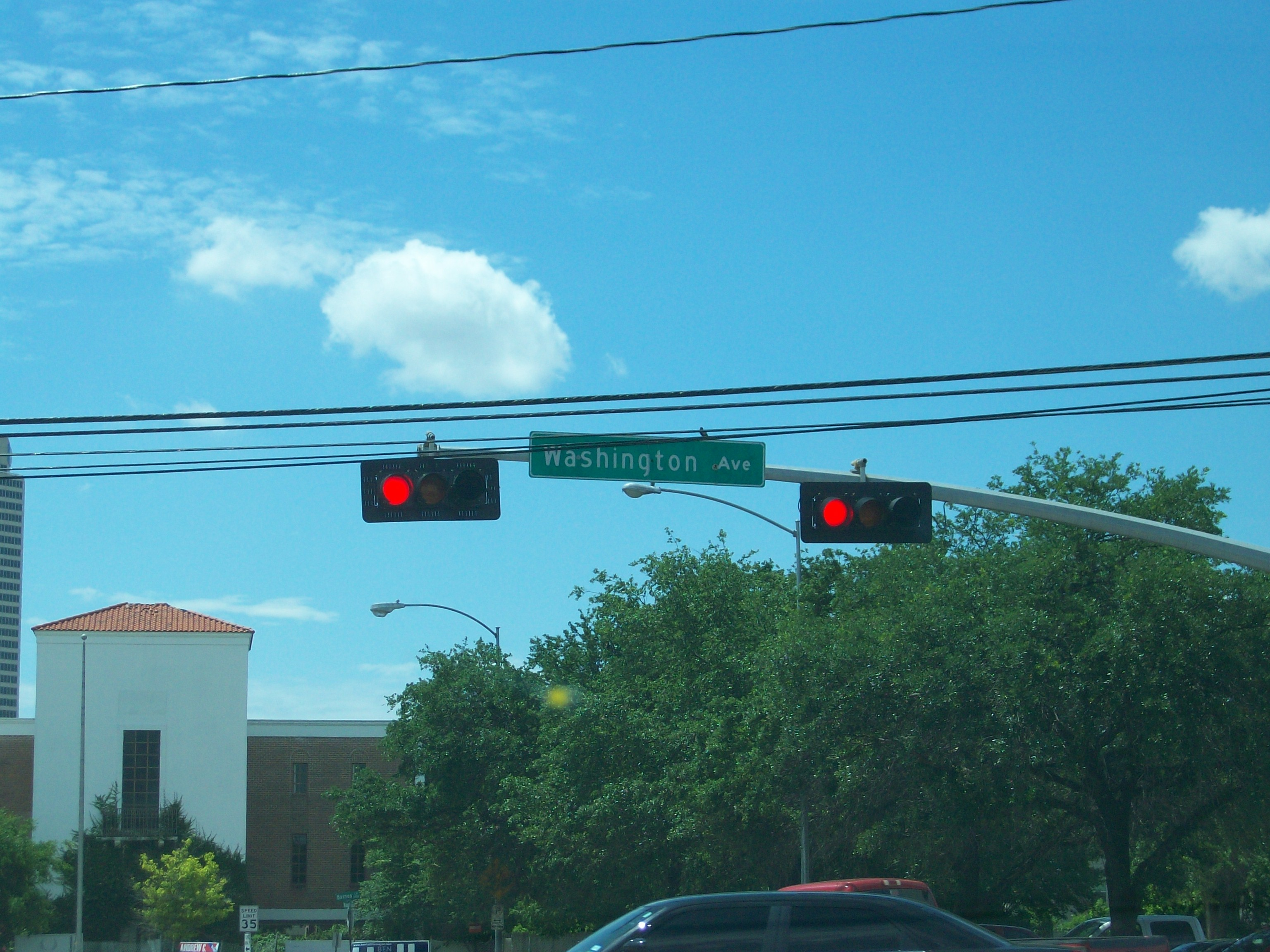 Intersection of Studemont Street and Washington Avenue (Houston, Texas)